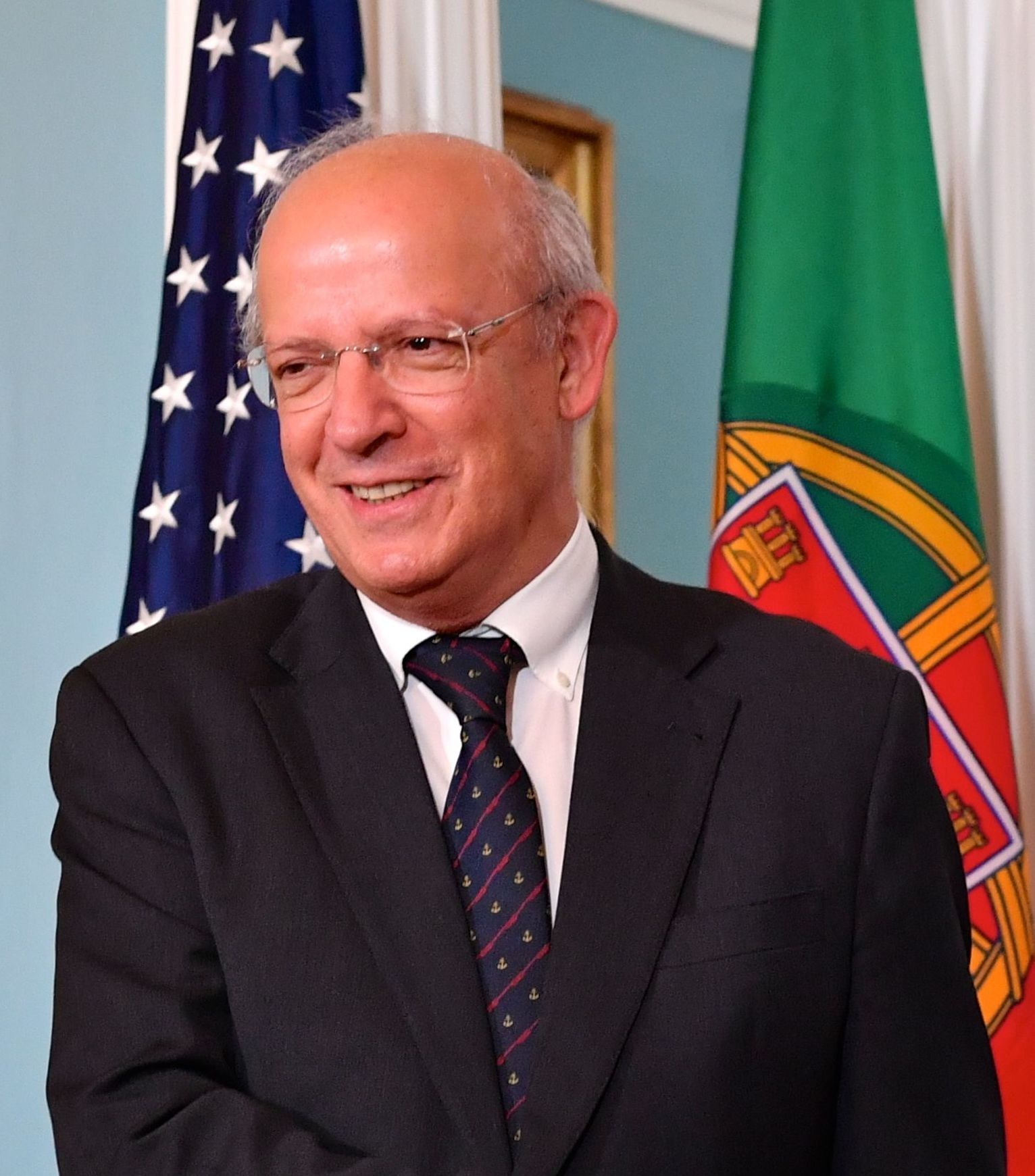 Portuguese Foreign Minister Augusto Santos Silva at the U.S. Department of State in Washington, D.C., on July 27, 2017. [State Department photo/ Public Domain]